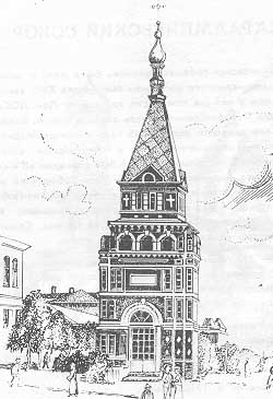 Mariupol old church